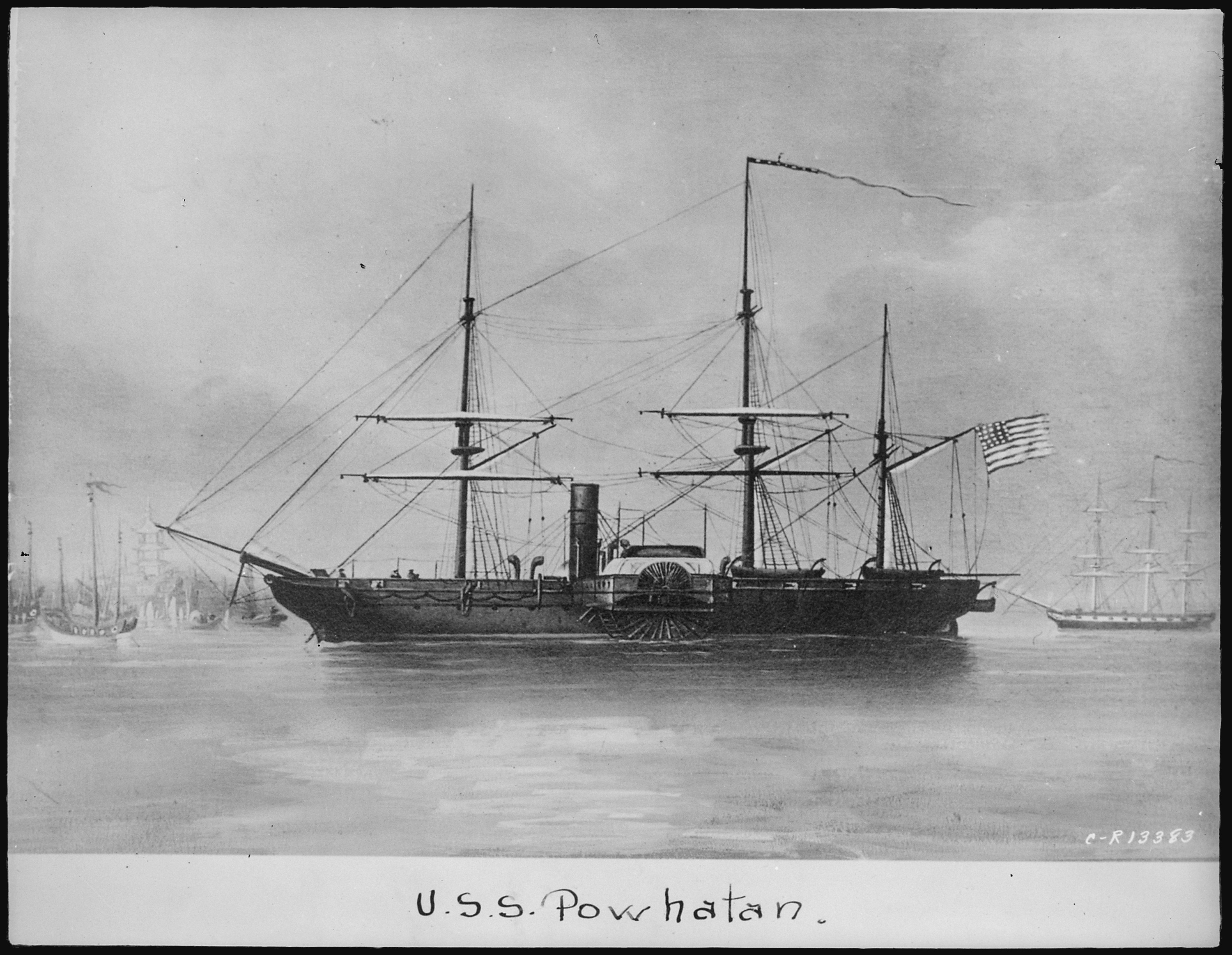 Scope and content: The Powhatan, a side-wheel steamer, was commissioned in 1851. General notes: Artwork